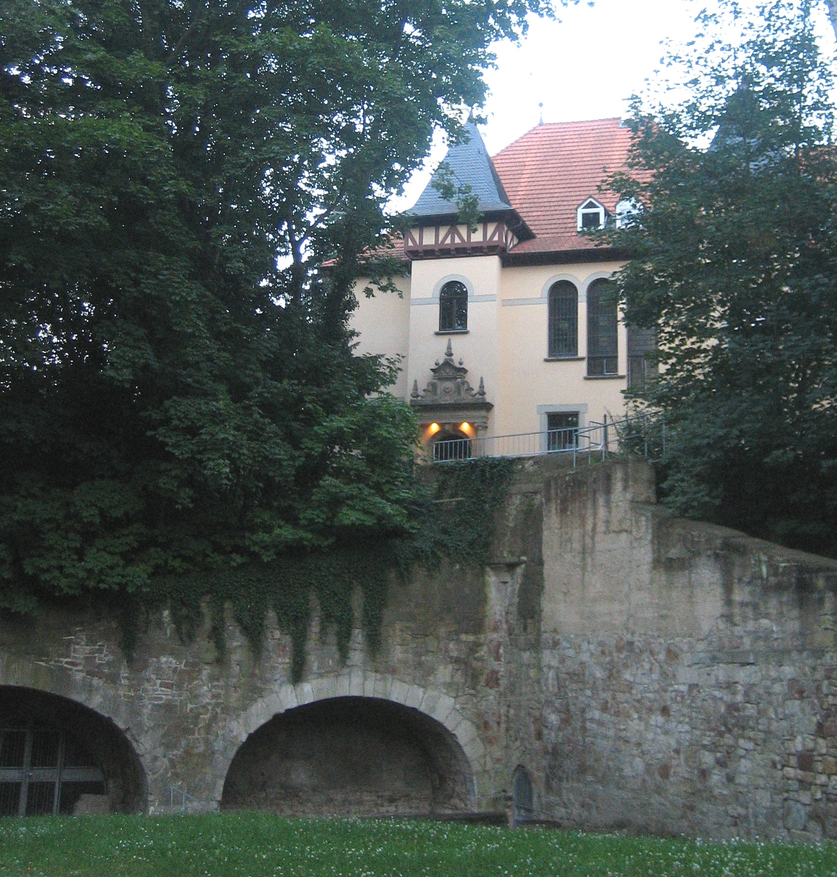 Seeliger mansion, below part of the old casemates